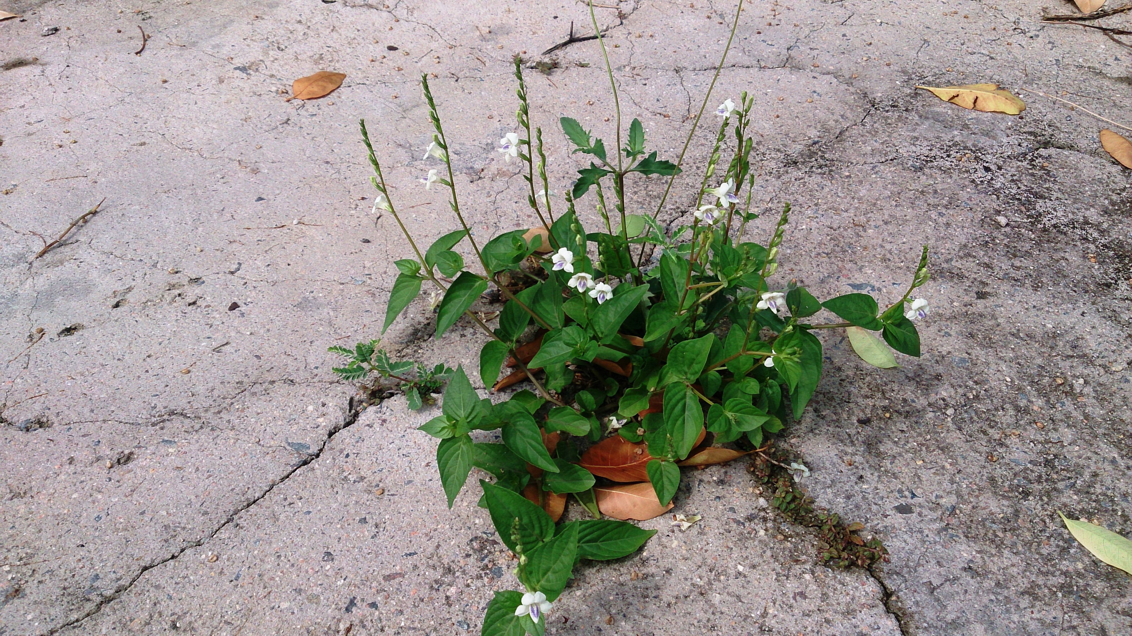 Asystasia gangetica subsp. micrantha. Common name: Chinese Violet. Small Chinese Violet. 小花十万错 (Chinese) Invasive weed.